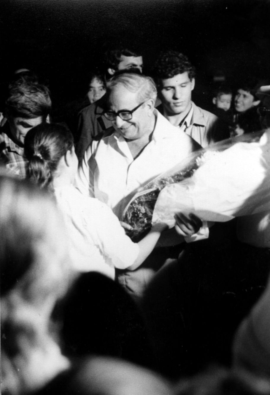 The Israeli president Yizhak Navon at a visit in Ein HaShofet